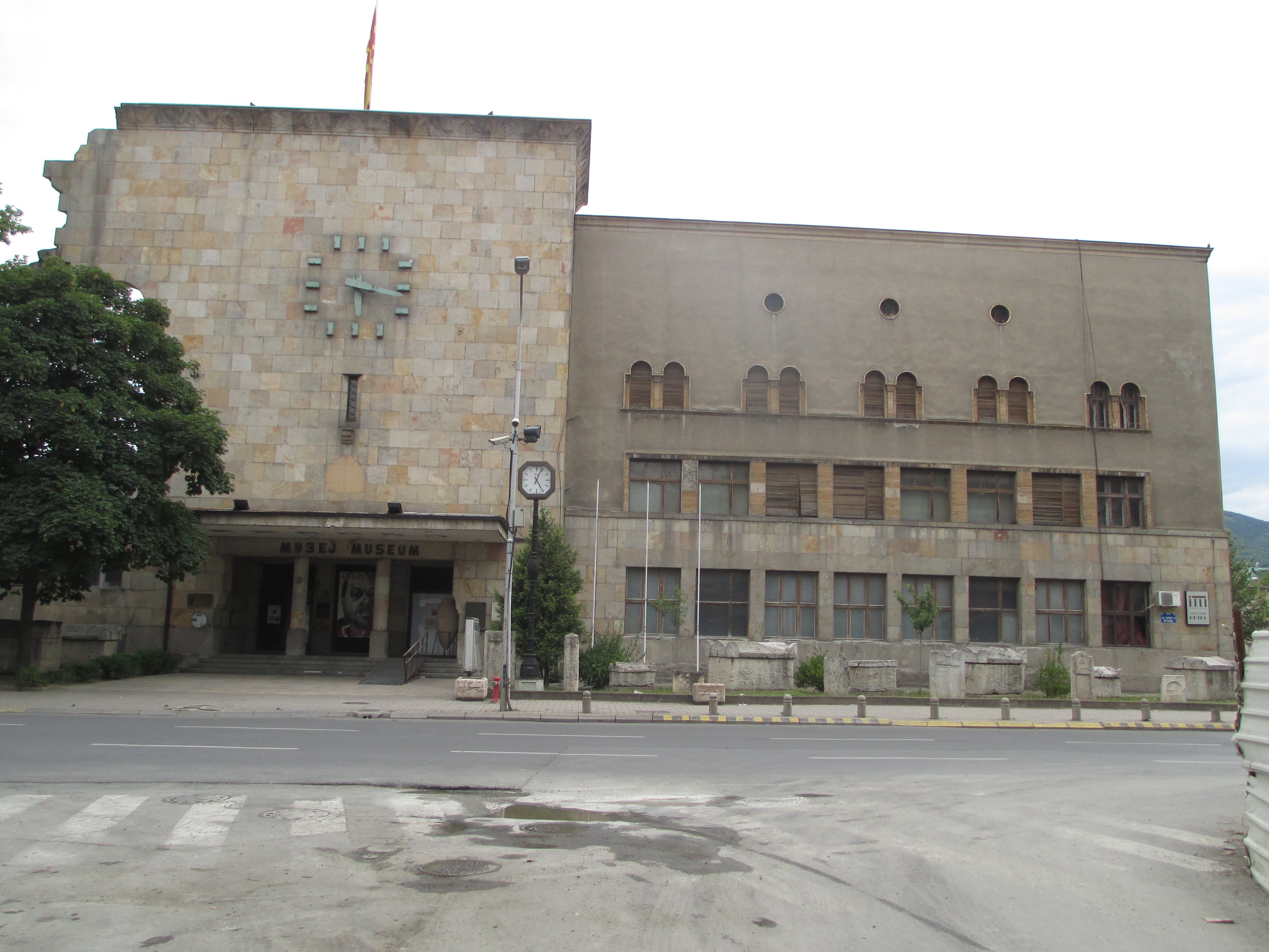 wall of former skopje railway station with a clock that stopped with the eartquake by 26/7/63 at 05.17 in the morning. now-skopje museum